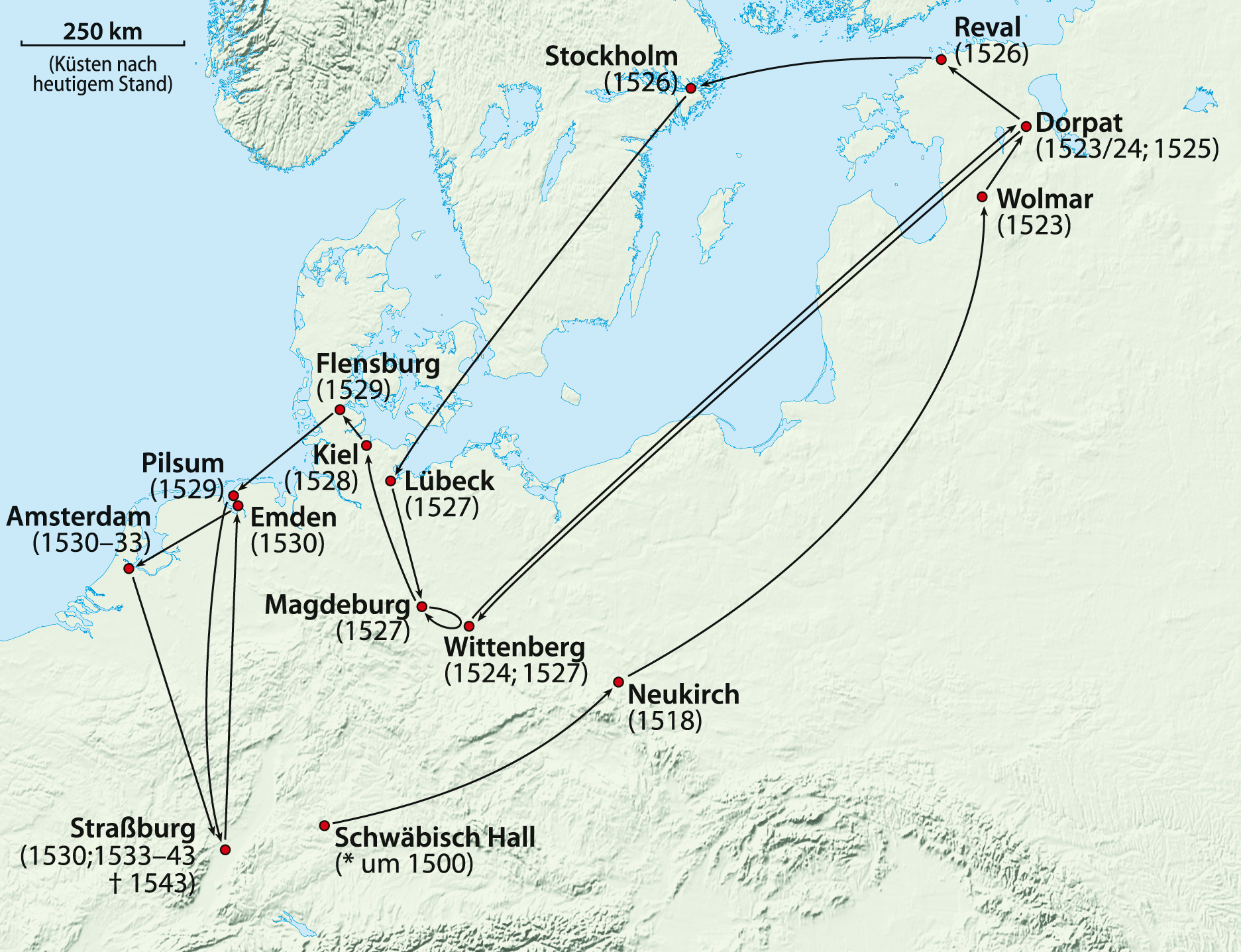 Map of the journeys of Melchior Hoffman